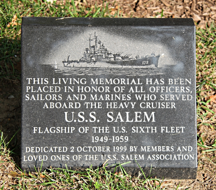 USS Salem memorial in Arlington National Cemetery in Arlington, Virginia, in the United States. Regulatory changes at the cemetery limited the size, placement, and number of memorials in the late 20th and early 21st centuries. Most new memorials are small plaques placed by military associations and foundations. Placement of the memorial includes a financial donation to help to maintain trees and grounds at the cemetery. As of September 2011, there were more than 140 such miscellaneous memorials in the cemetery. This memorial is in Section 12, placed before a Red Oak.